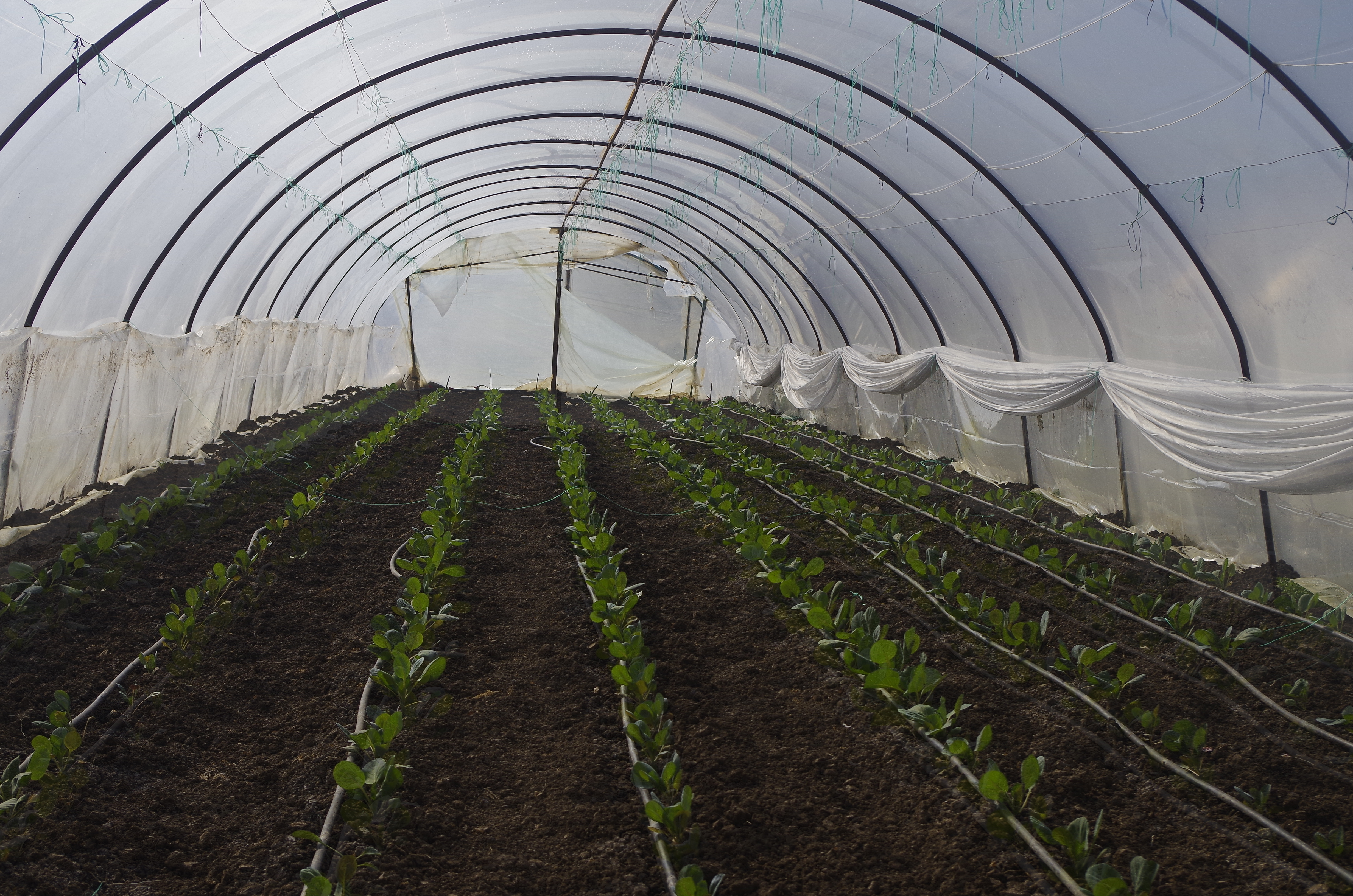 Greenhouse of radishes